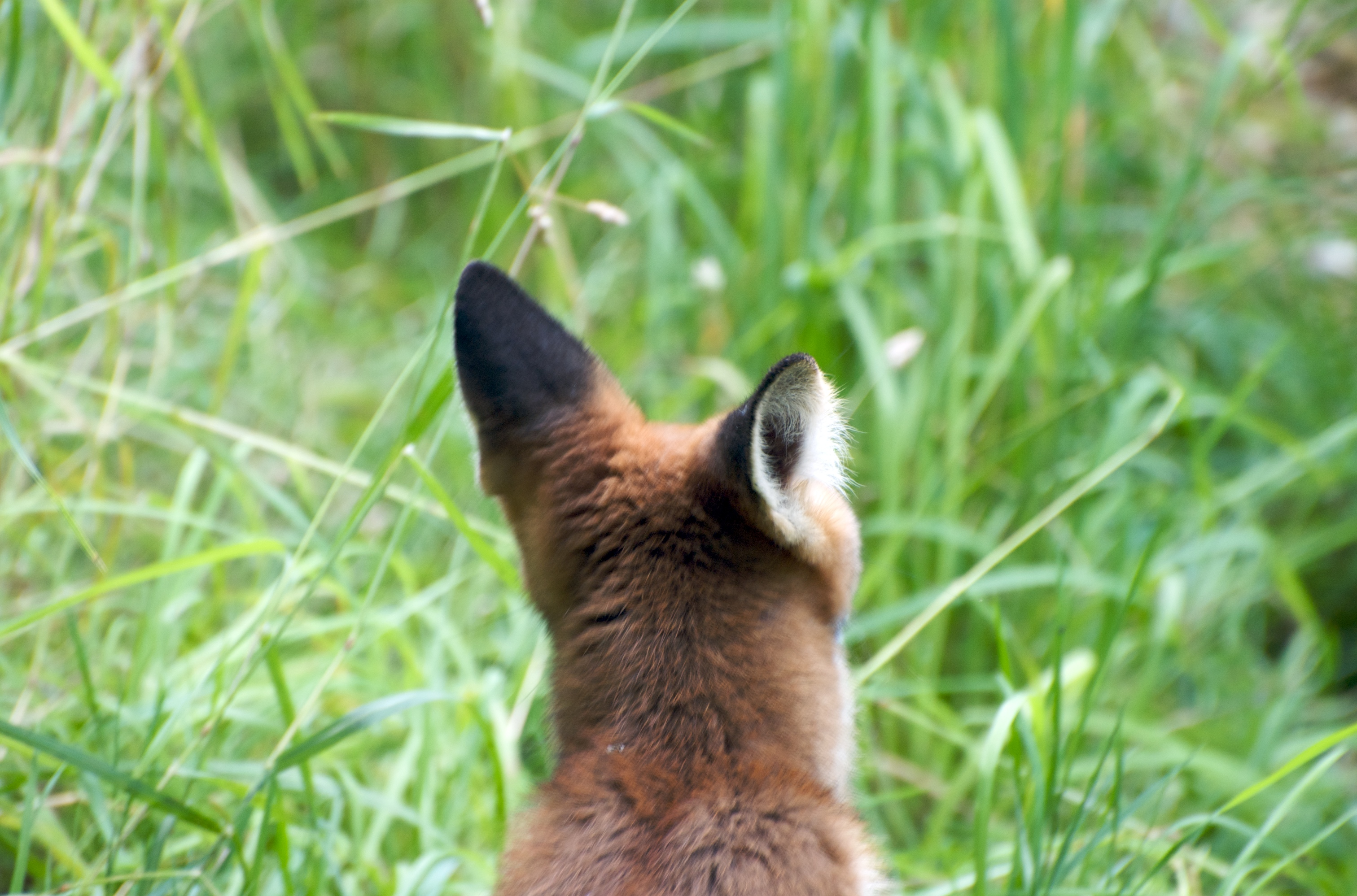 Fox ears. they move, don't you know?